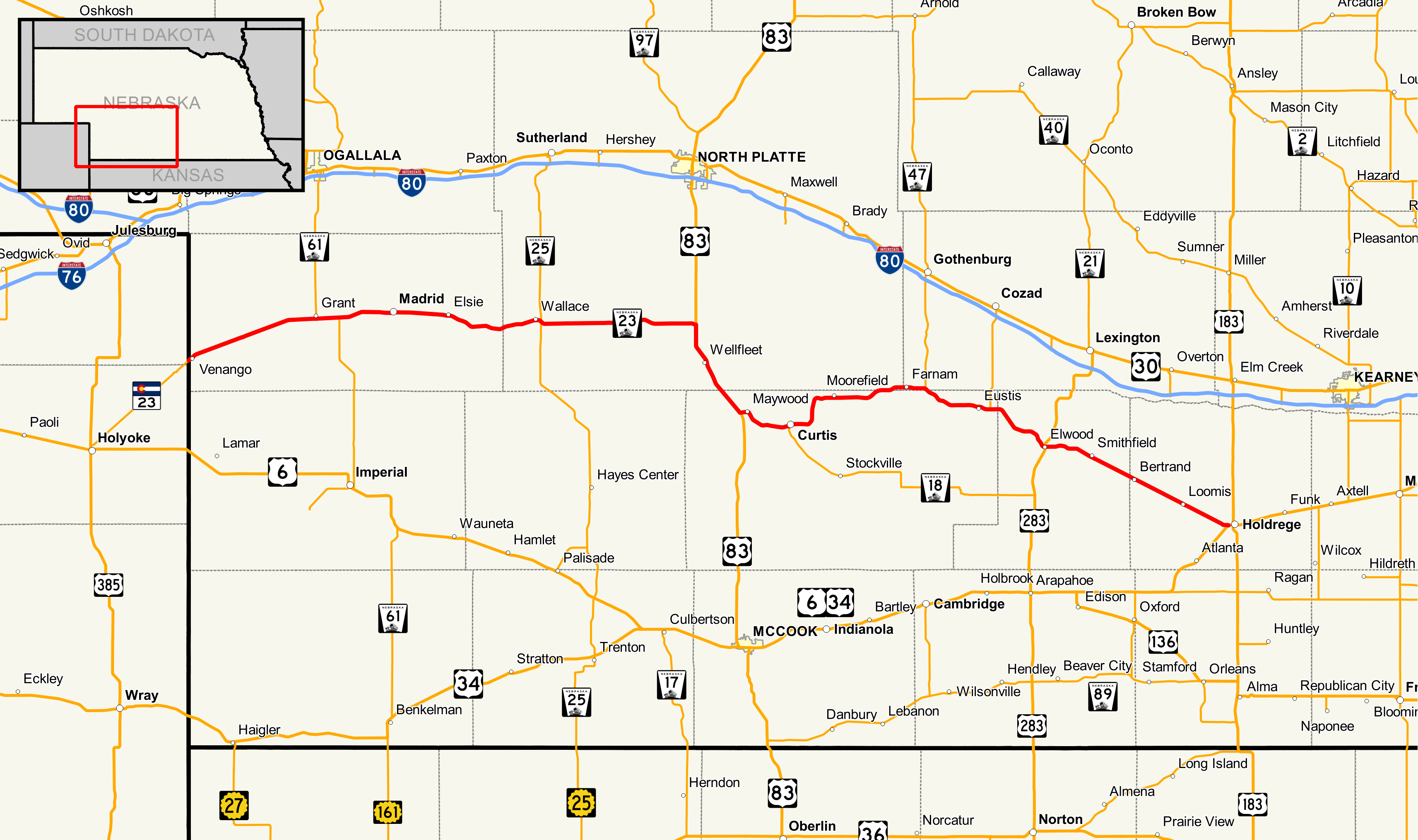 Map of Nebraska Highway 23 Data Sources: Nebraska Highways - - Dec 2016 Nebraska County Boundaries - - Dec 2016 Nebraska City Boundaries - - Dec 2016 This PNG graphic was created with QGIS